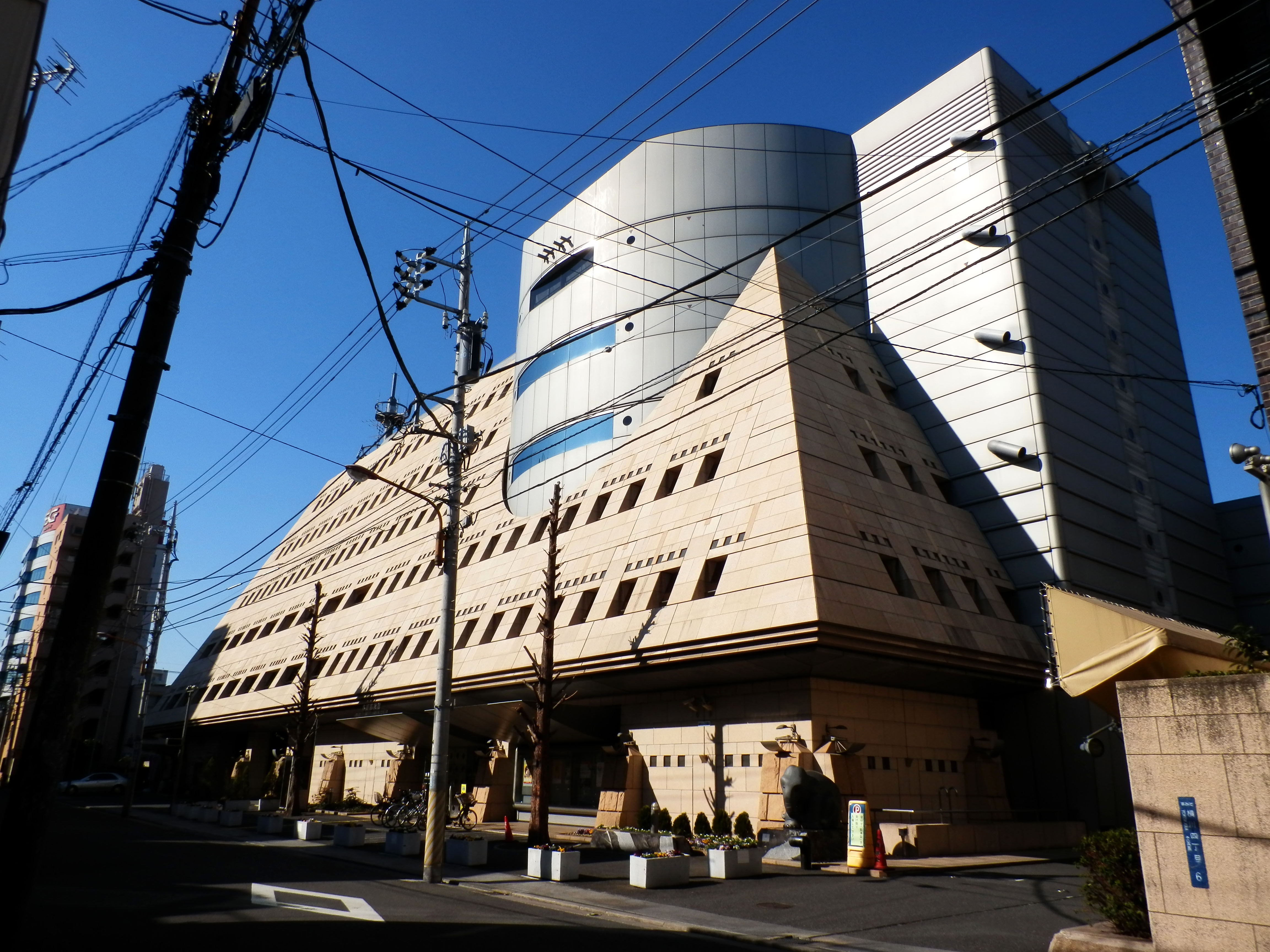 Honjo Fire Station (Tokyo, Japan)